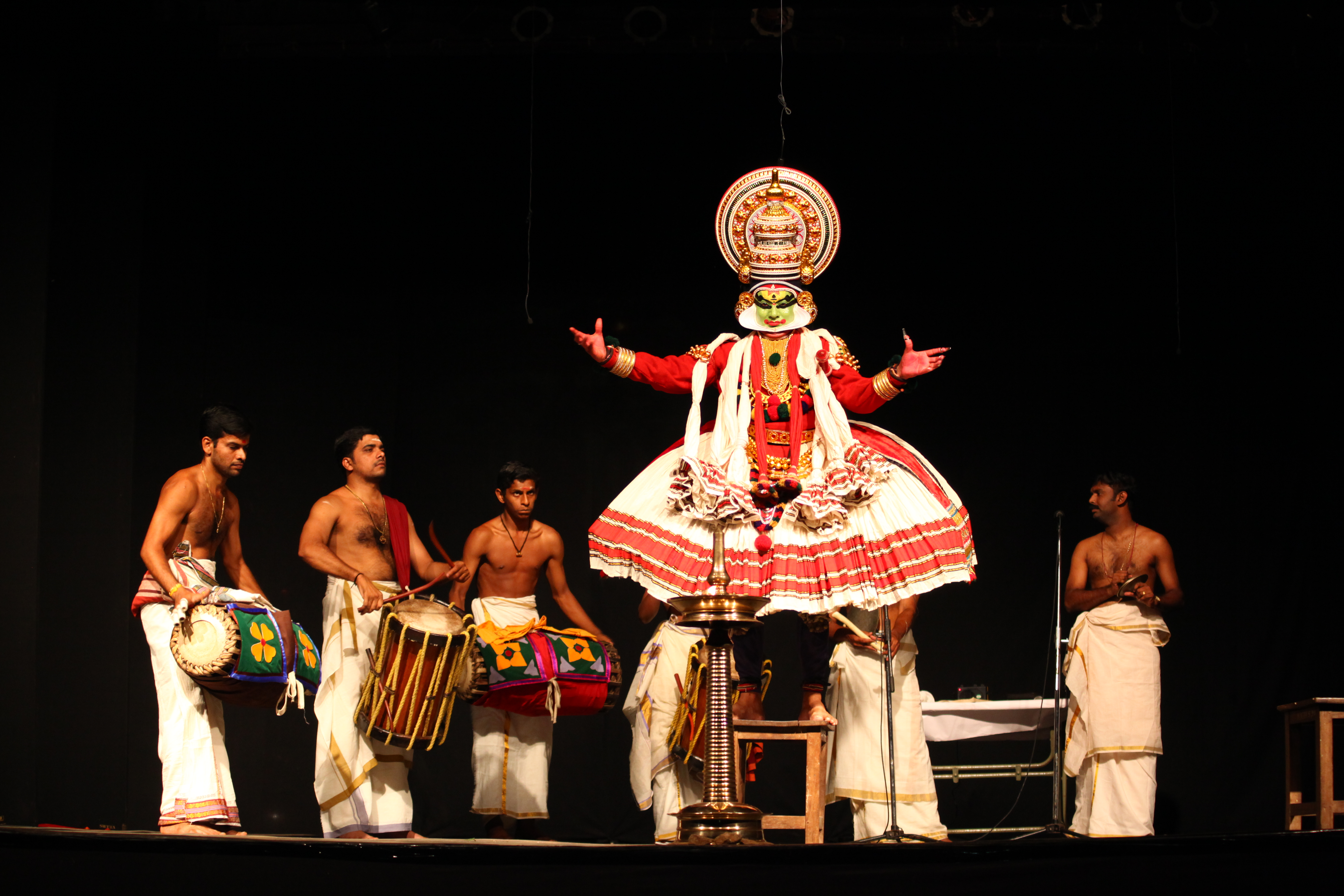 This media file is uploaded with Malayalam loves Wikimedia event - 3.